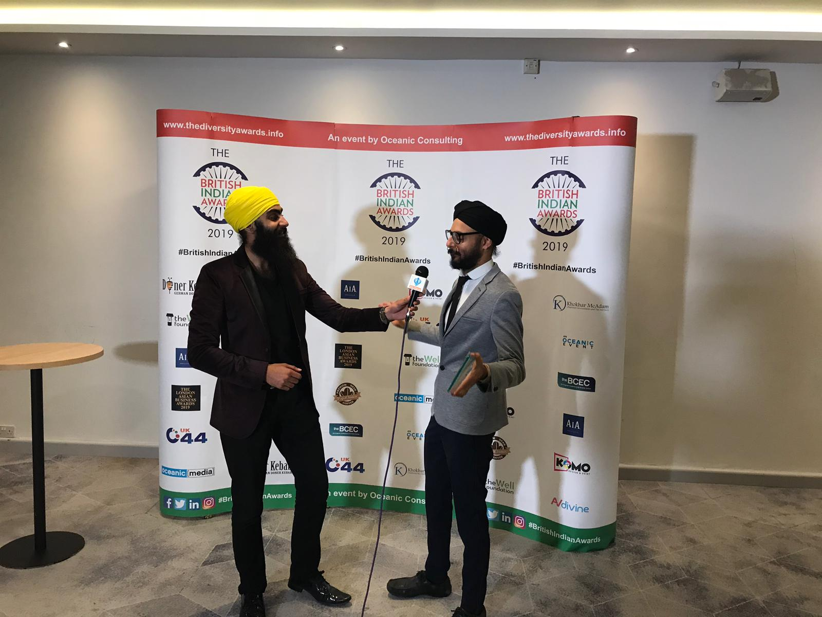 Param Singh MBE speaking at the British Indian Awards